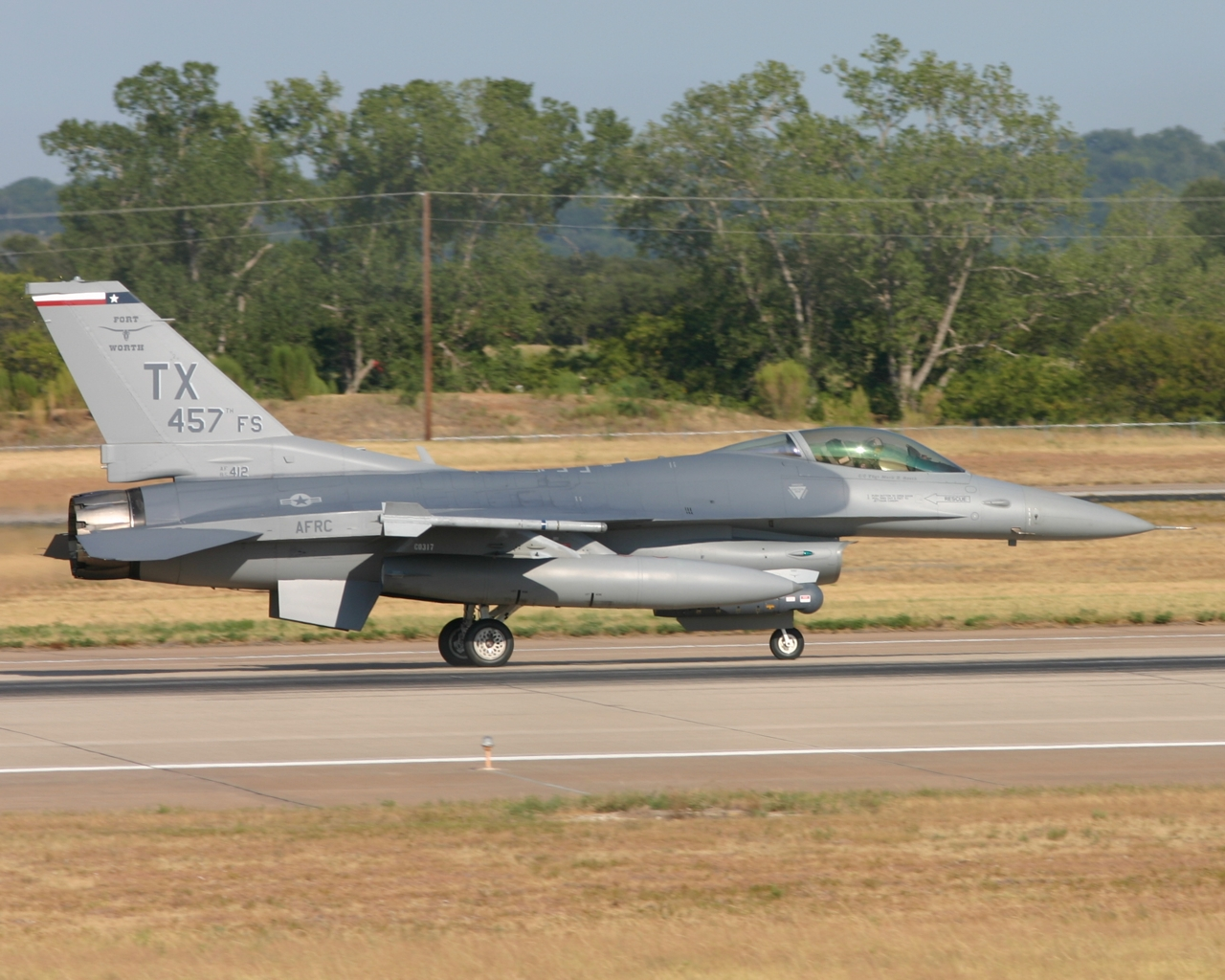 457th FS F-16C Block 30A at NAS Fort Worth JRB